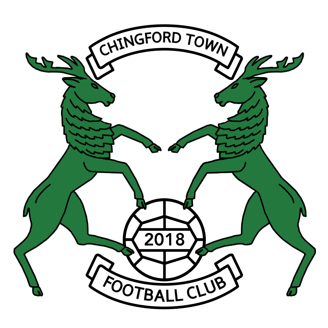 The badge of football club Chingford Town FC, created by Karl Tew.